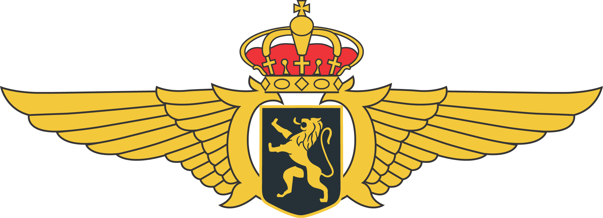 Belgian Air Force Wings